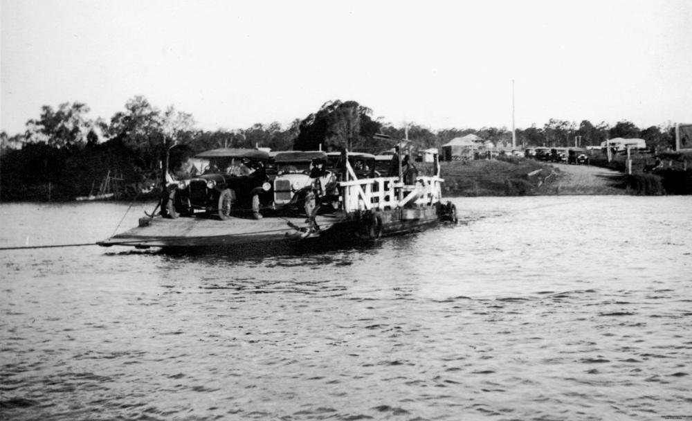 Logan Ferry carries cars across the Logan River, 1930